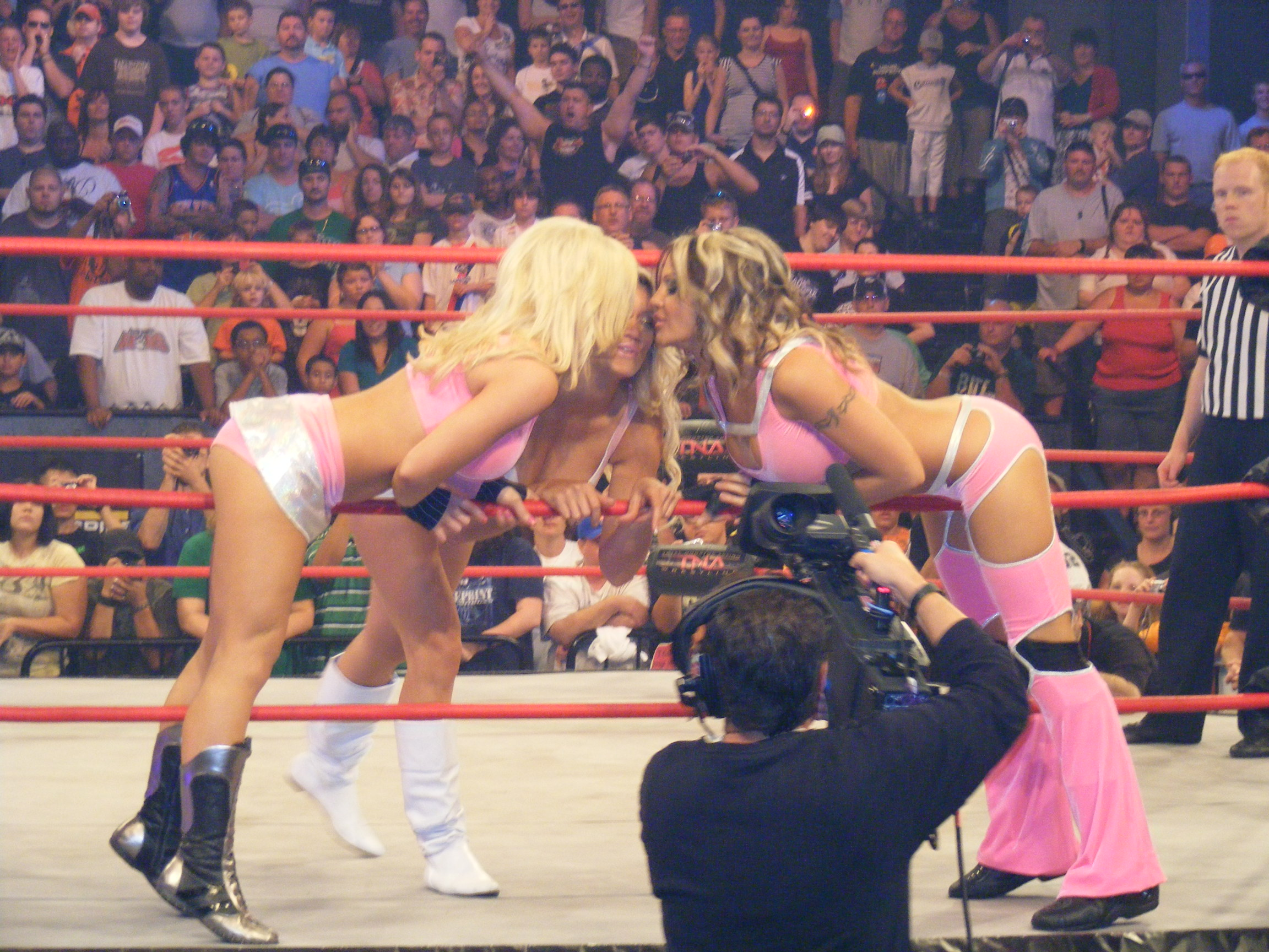 The Beautiful People (Velvet Sky, Madison Rayne & Lacey Von Erich) show off in their entrance during an Impact taping.